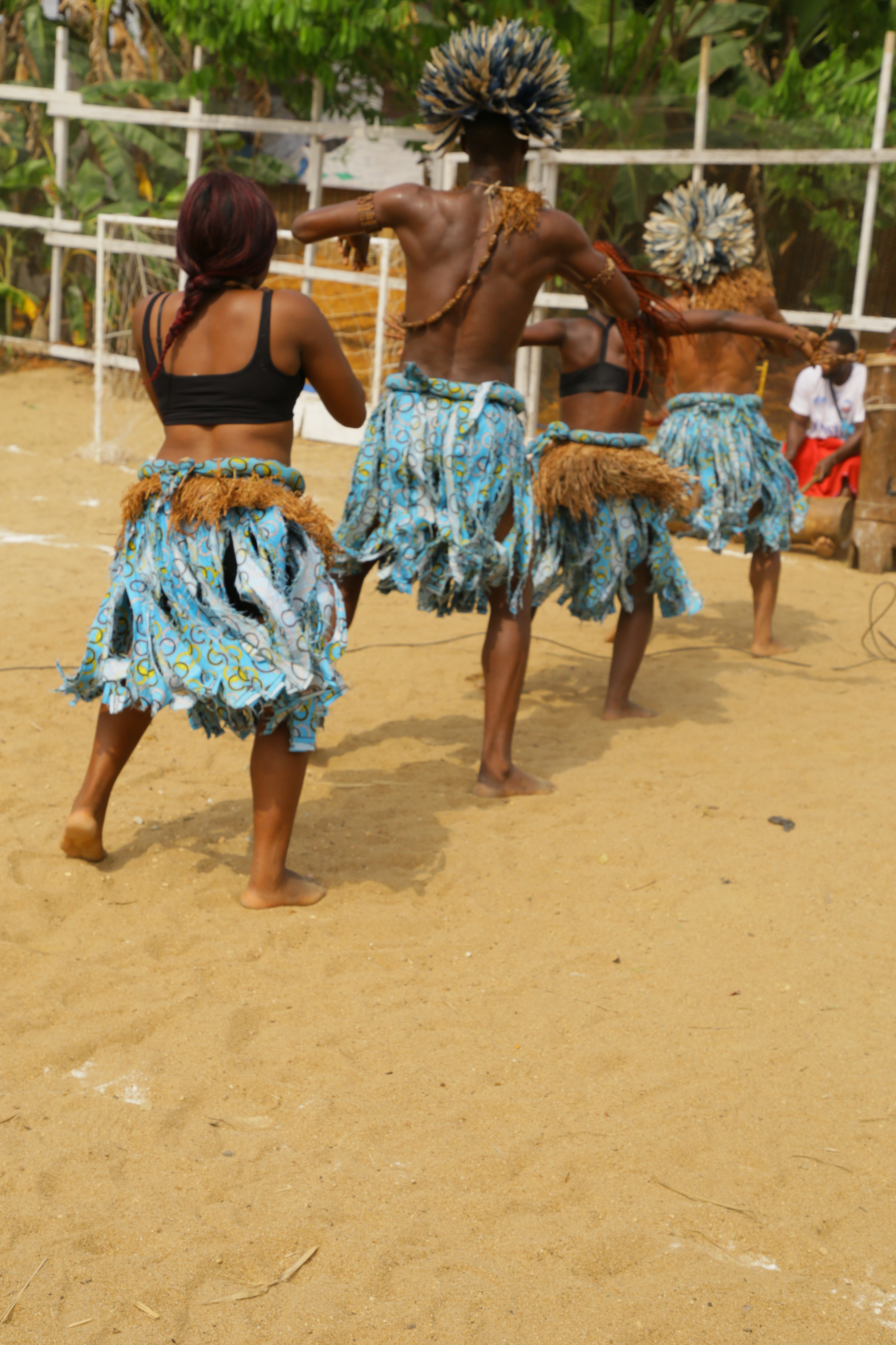 ceci est une image illustrant la danse de la région du centre au Cameroun This is an image with the theme "Play" from: Cameroon